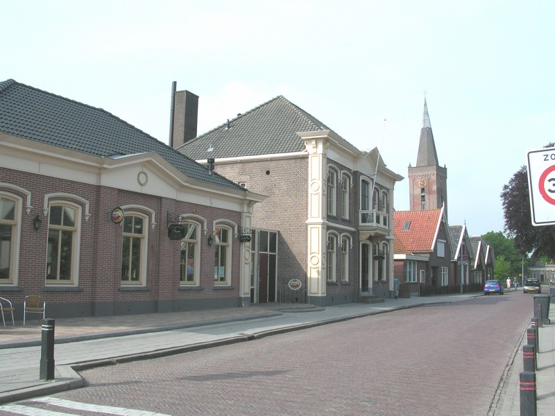 Het centrum van Wognum, met de oude raadhuis en de kerk. The town center of Wognum, with the old Town Hall and the Church.